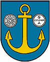 Coat of arms of Asten, Upper Austria